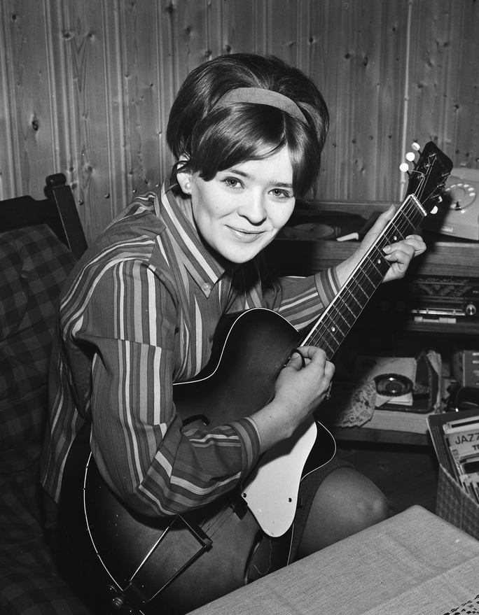 Kirsti Sparboe was born on 7 December 1946 in Tromsø, Norway. She is a musical performer, and an actress. Most of her musical career is based around the widely popular Eurovision Song Contest.